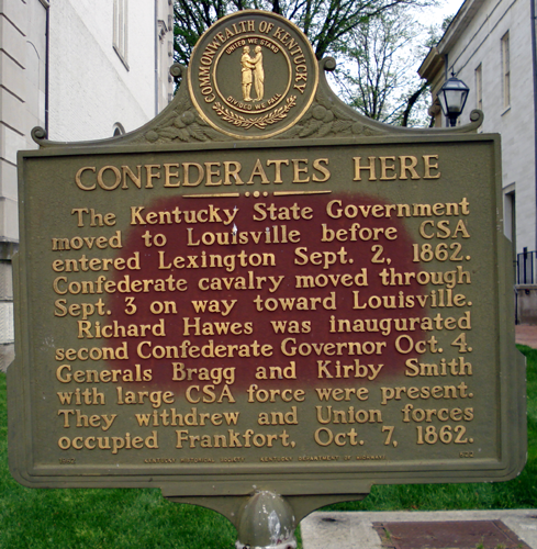 Taken by Acdixon in Frankfort, KY on April 27, 2007.